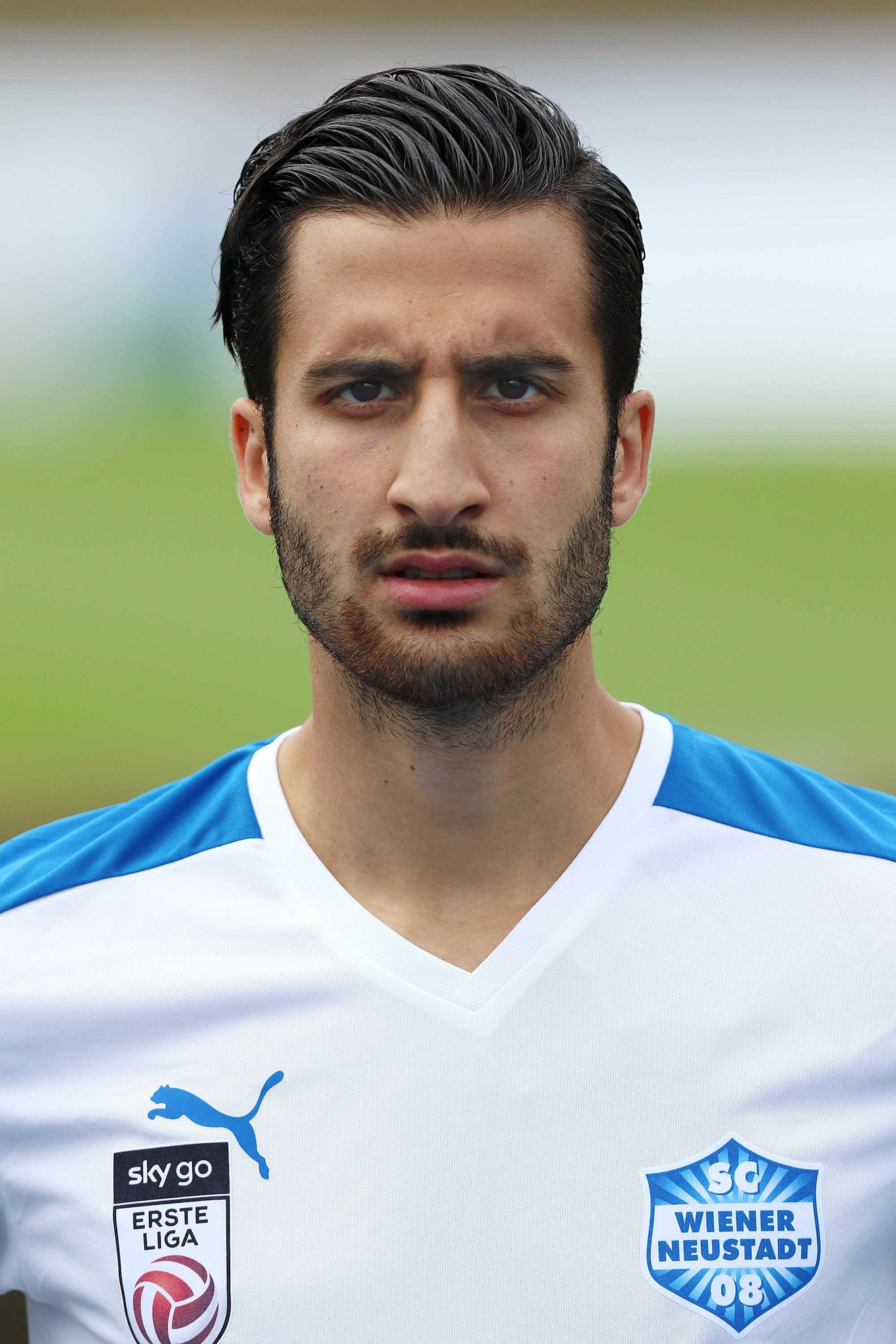 SC Wiener Neustadt squad presentation summer 2017. – The photo shows Mustafa Yavuz.